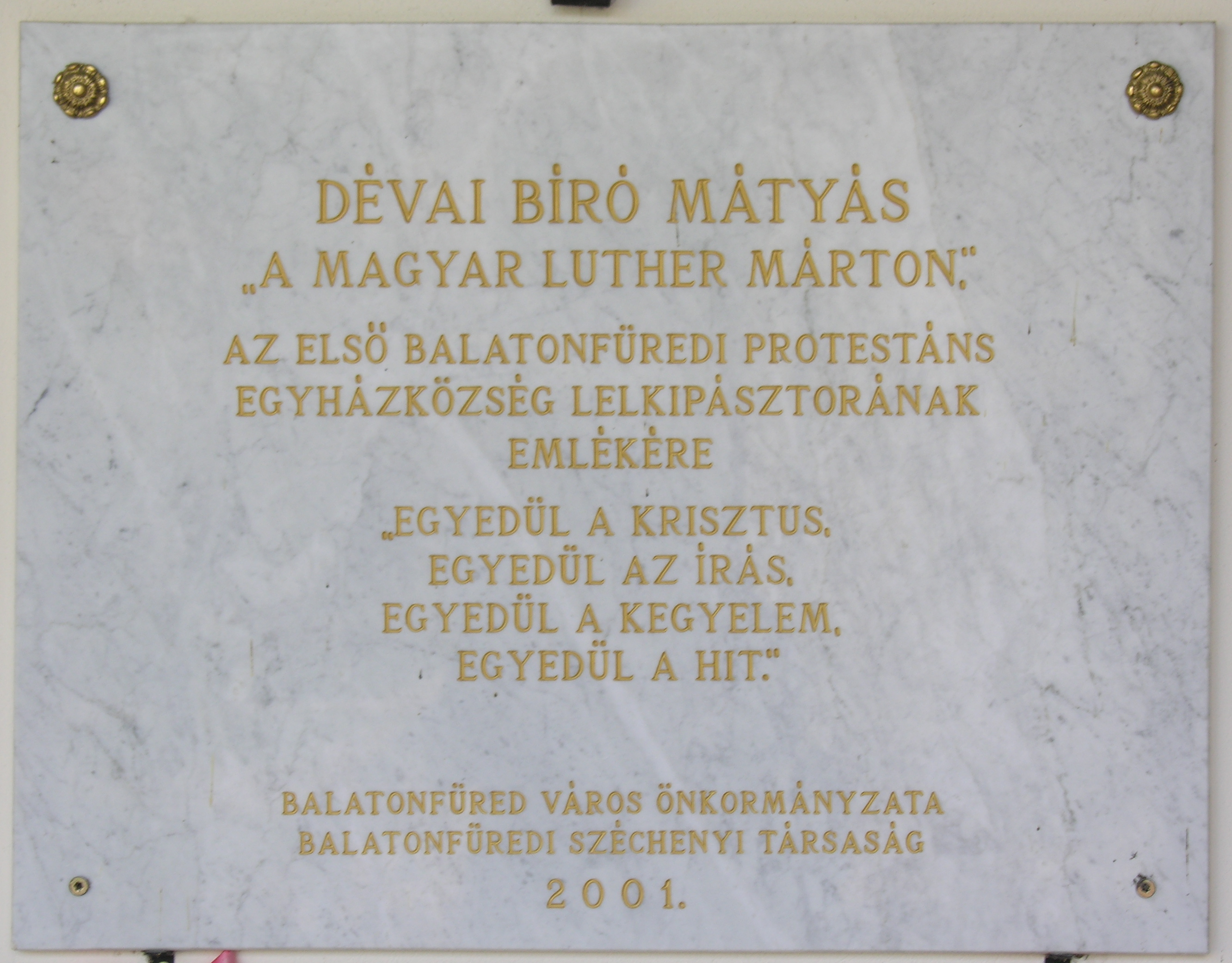 Commemorative plaque of Mátyás Dévai Bíró in Balatonfüred, Gyógy Square No 1